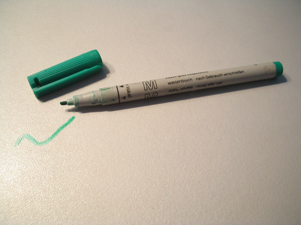 Green marker pen.